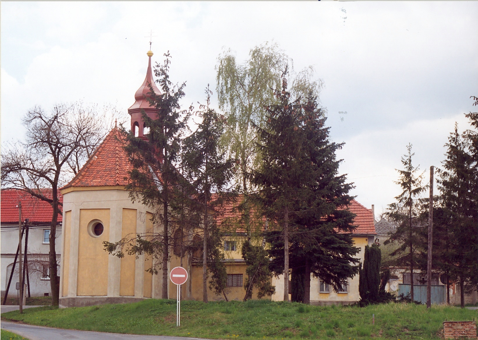 Holy Trinity Chapel in Hříškov